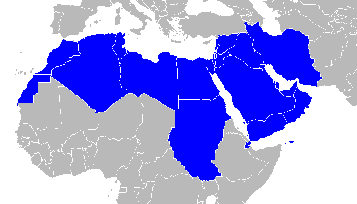 Map of commonly included MENA (Middle East & North Africa) countries